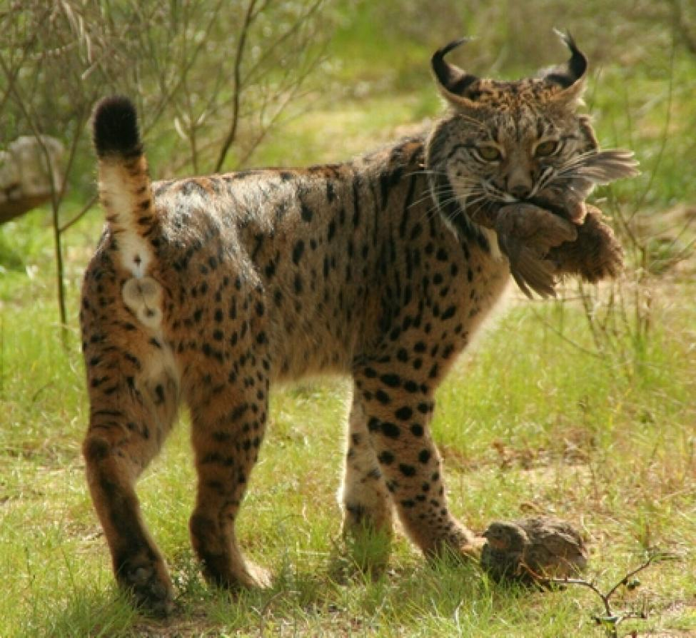 Iberian Lynx adult from the Program Ex-situ Conservation